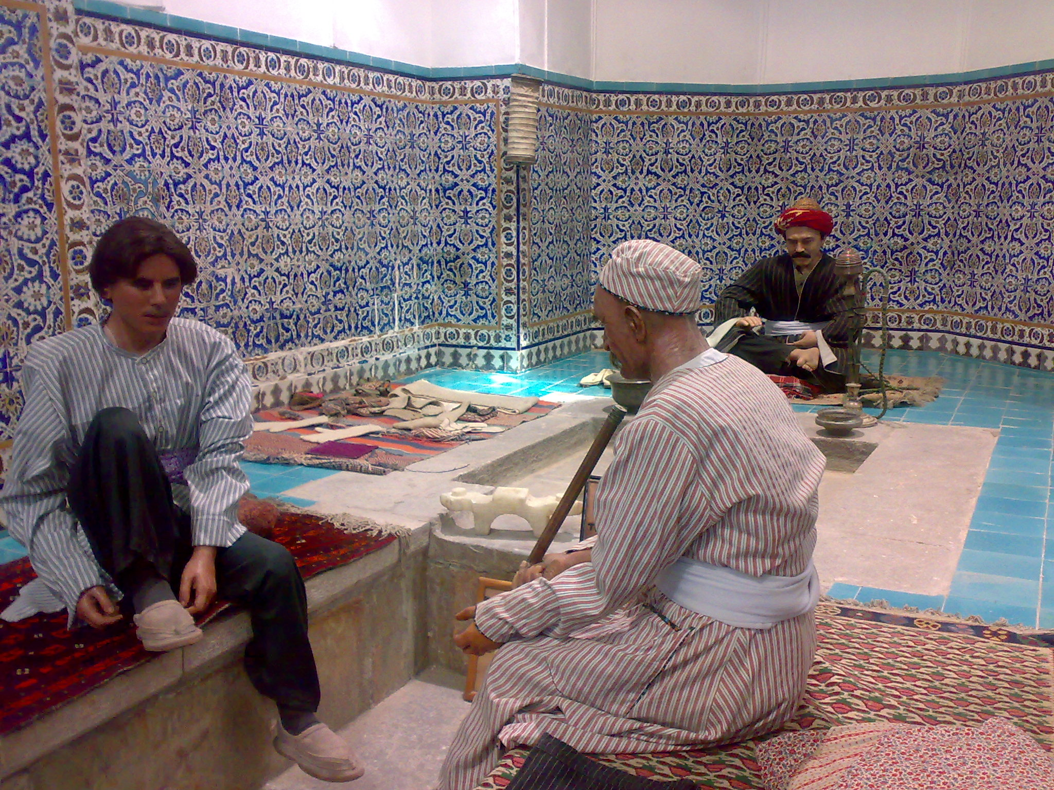 this Traditional bathroom that its name is Gnjlykhan, Kerman.